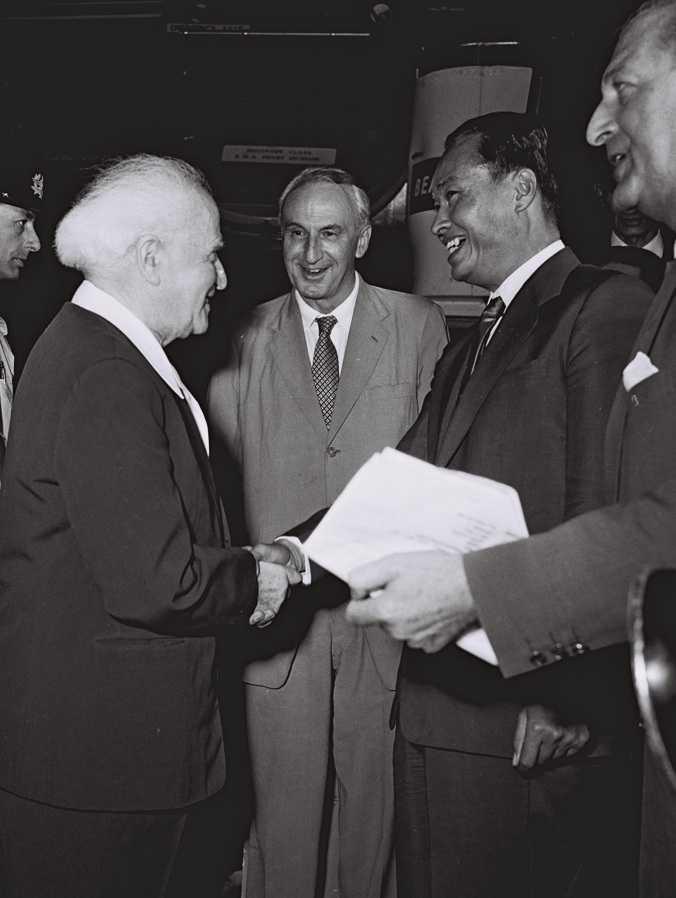 David Ben Gurion greeting General Ne Win, PM of Burma, on his visit to Israel in 1959